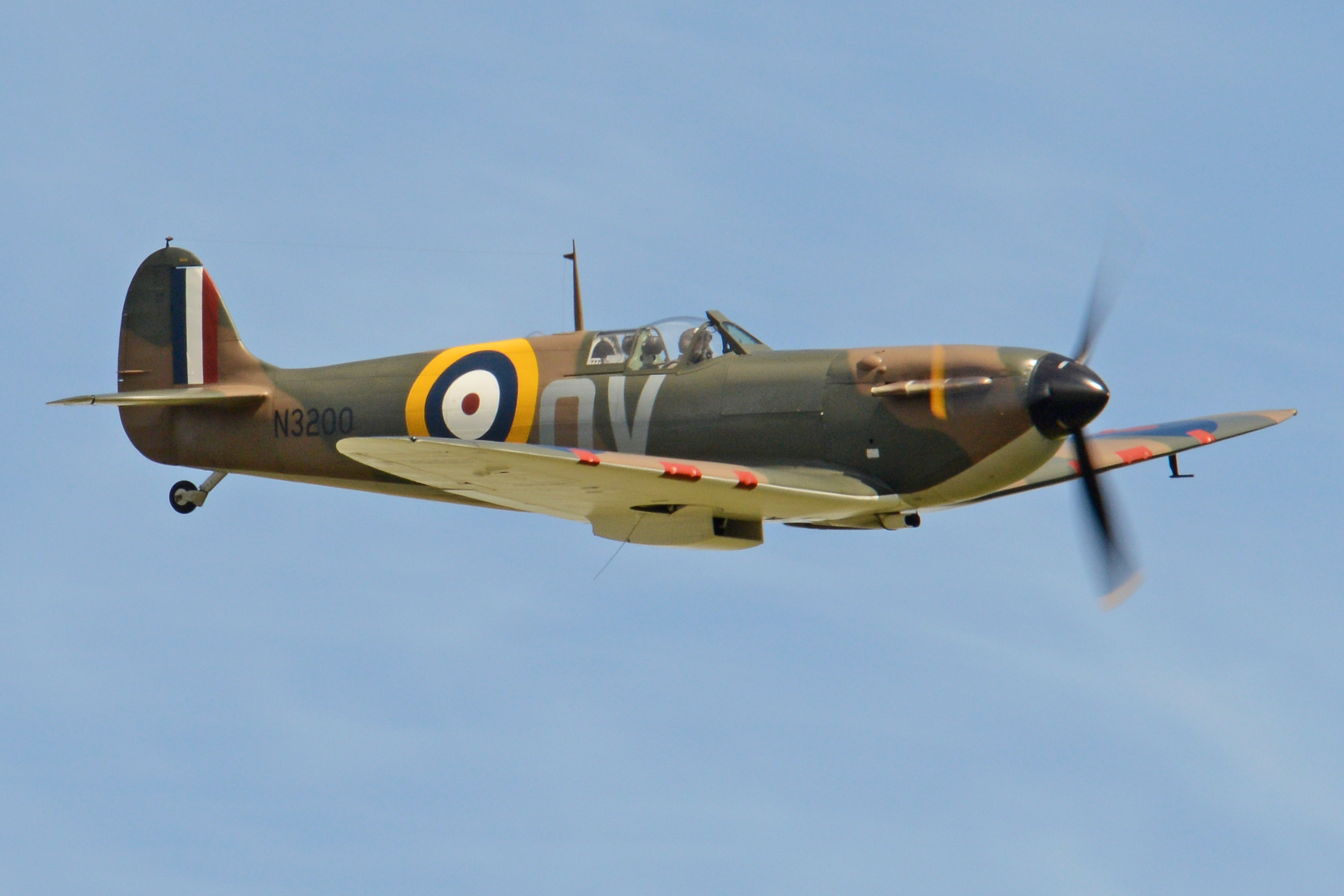 c/n 441. Owned by Imperial War Museum, Duxford, and operated for them by ARCo / Historic Flying Ltd. Restored to exacting 1940 condition, she is seen displaying at the 2016 Flying Legends airshow, Duxford, Cambridgeshire, UK. 10th July 2016